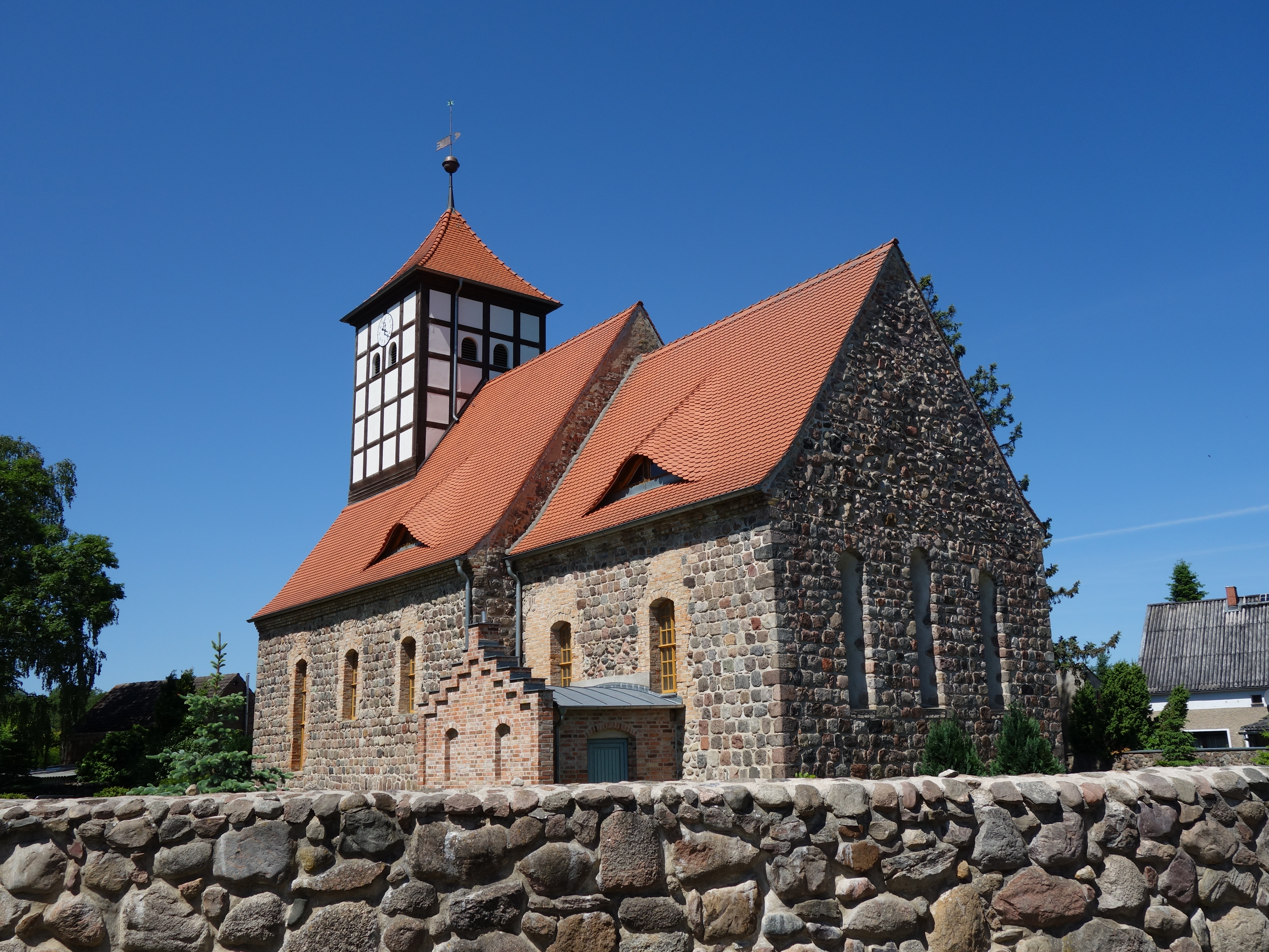 South-eastern view of the church in Tornow , Eberswalde municipality , Barnim district, Brandenburg state, Germany.